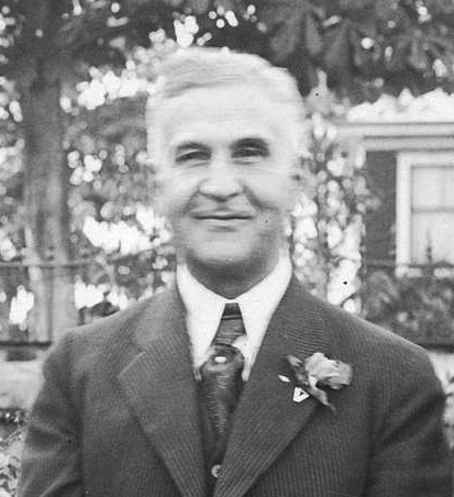 W. C. Shelly